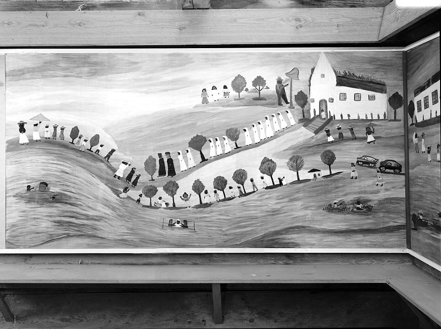 "Baptism" (1955). First section of mural painted by Clementine Hunter inside the African House at Melrose Plantation. Historic American Buildings Survey photo: Melrose Plantation, African House, State Highway 119, Melrose, Natchitoches Parish, Louisiana. USA